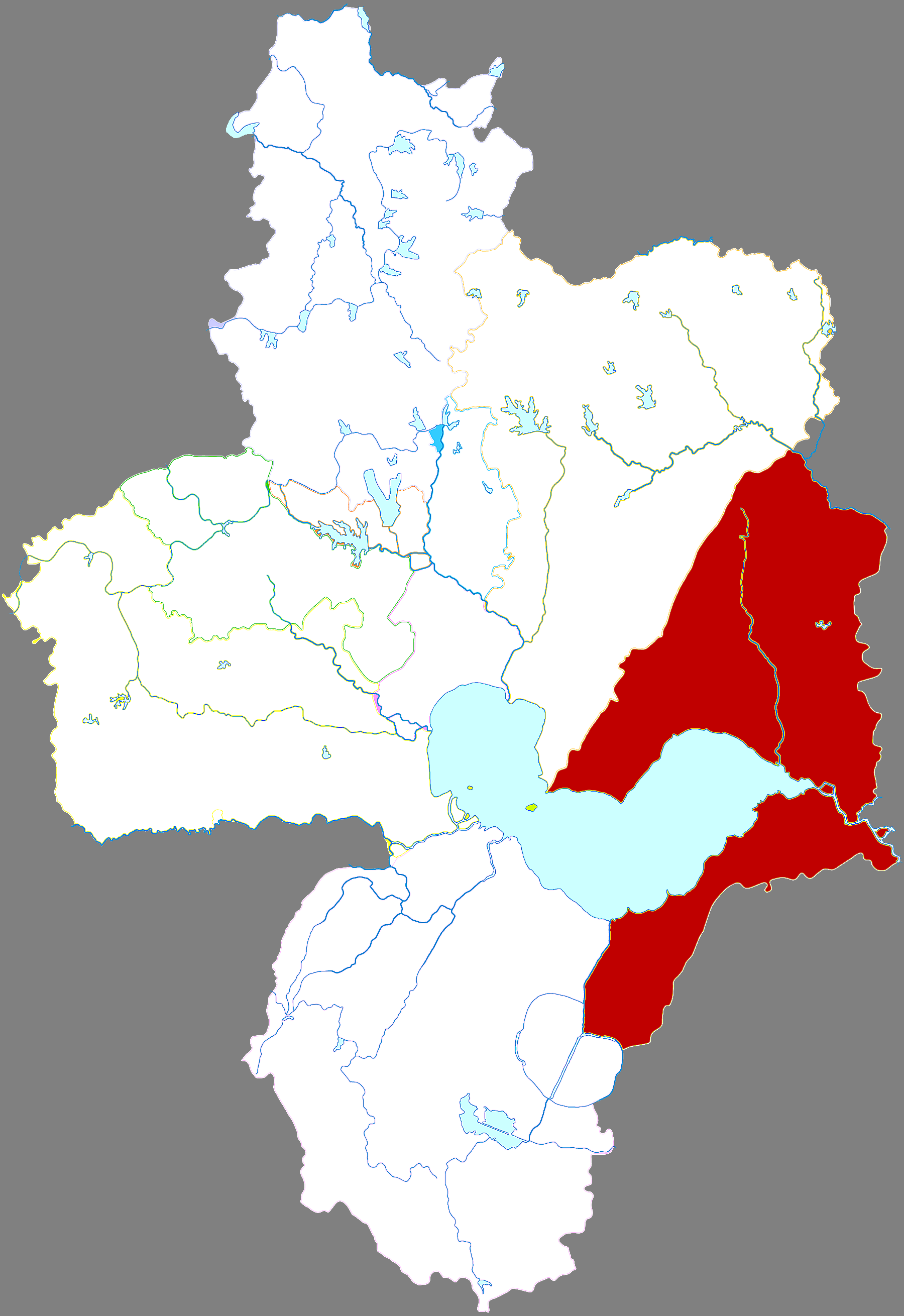 Location of Chaohu county-level city in Hefei city, China